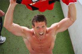 "Big" Steve Fletcher celebrating.